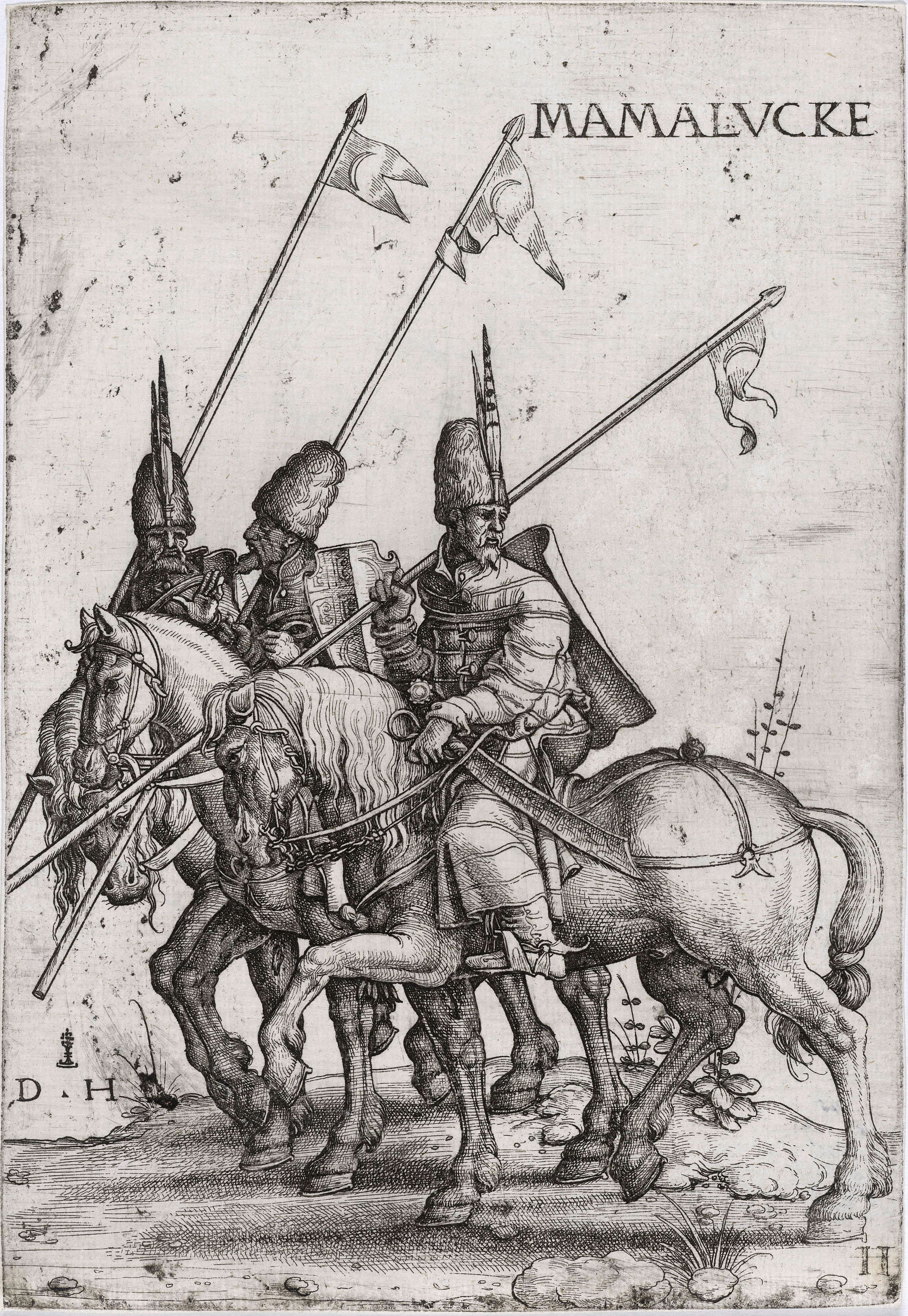 Hopfer, Daniel (ca 1470-1536): Etching, Three Mamelukes with lances on horseback. “Mamelucke” Bartsch 56, Holl.65 i/ii, before the Funck number. “Vor der Nummer. Ganz ausgezeichneter, kräftiger Druck mit winzigem Rändchen um die Plattenkante. Einige dünne Stellen sowie einige minimale Risschen links oben, sosnt sehr gut erhalten.”